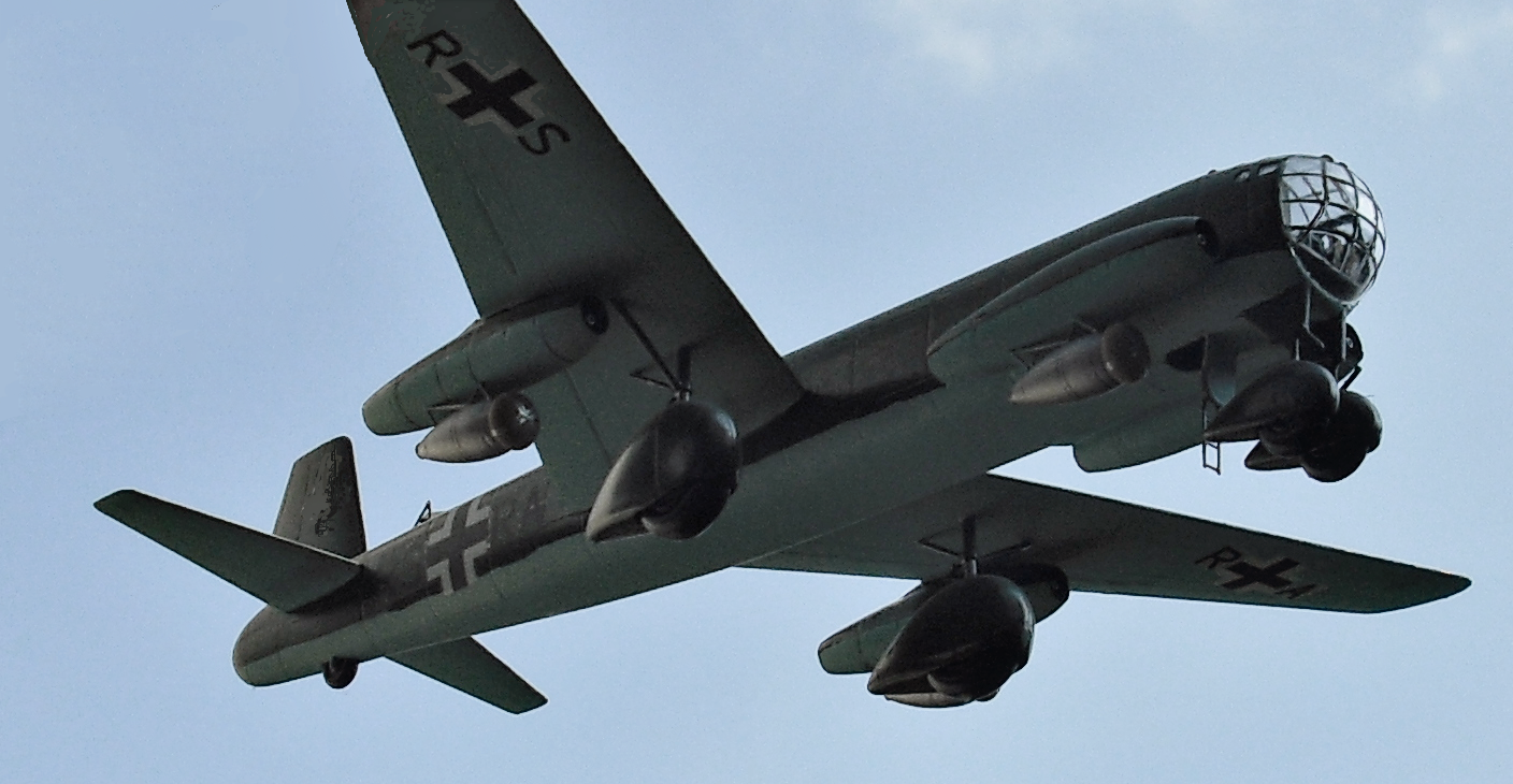 Model photo Junkers Ju 287 V1. Originally from